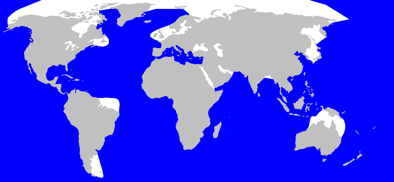 Geographic distribution of Spermwhale v4